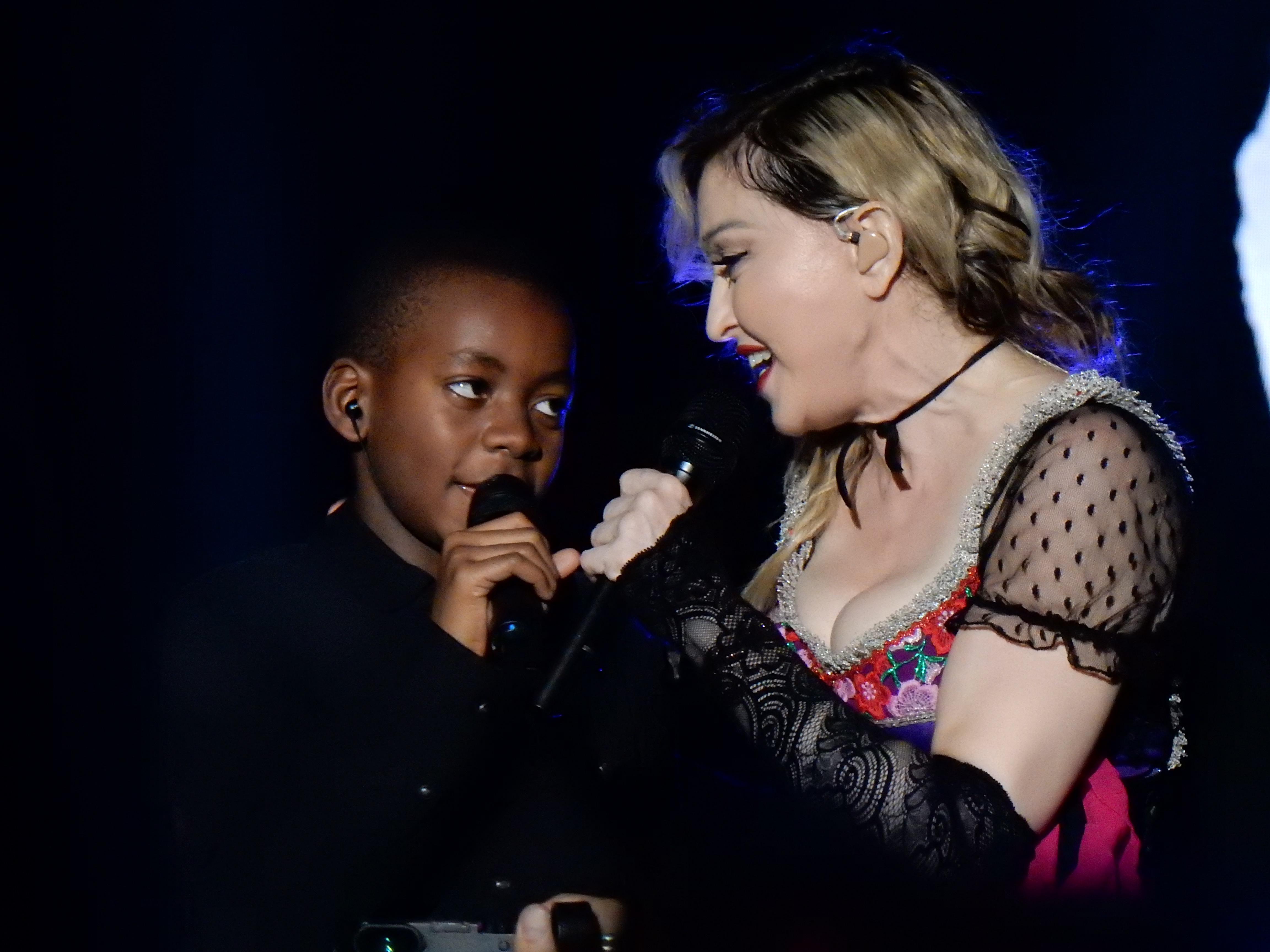 Madonna and her son David Banda at Rebel Heart Tour 2015 - Paris